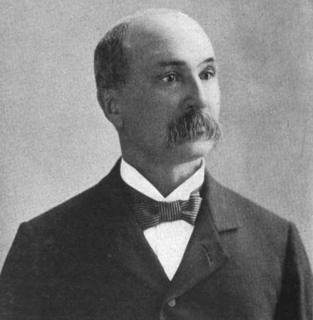 Freeman Knowles, South Dakota Congressman